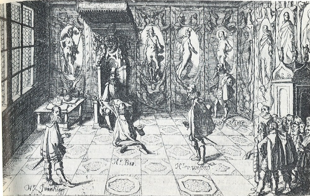 A picture of king Gustav II Adolf receiving a Dutch embassy in the North west tower of the castle Tre Kronor in Stockholm.